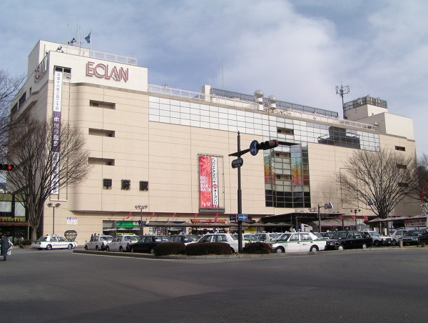 South side of Kōfu railway station in Kōfu, Yamanashi, Japan